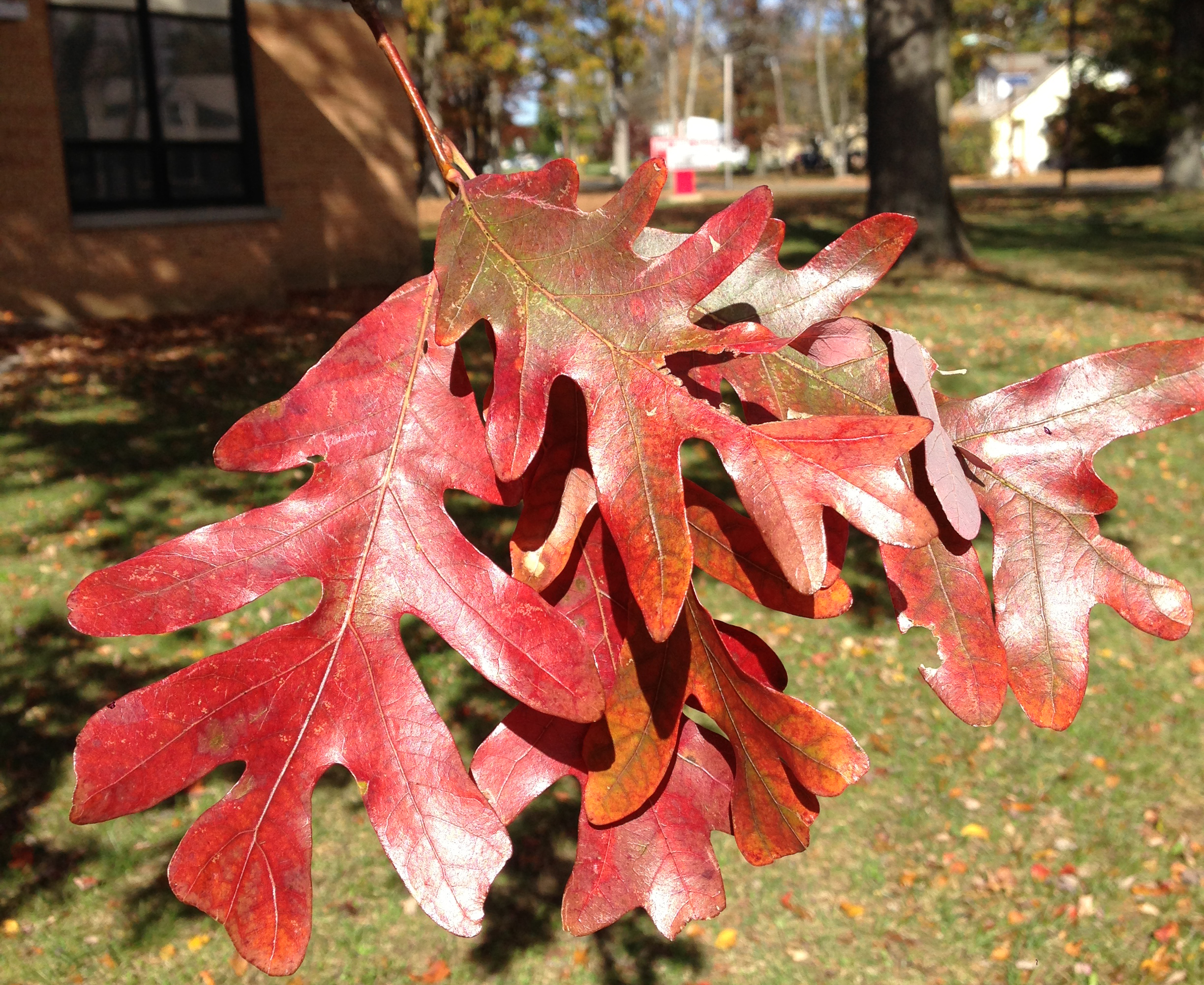 White Oak foliage during autumn along Lower Ferry Road in Ewing, New Jersey